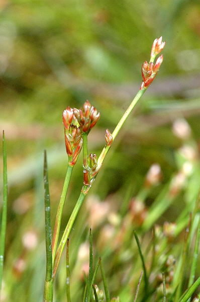 Juncus squarrosus in Commanster, Belgian High Ardennes.